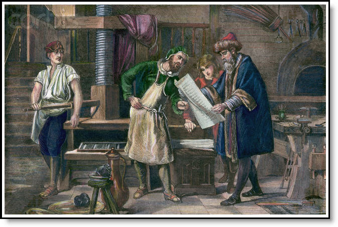 Colored engraving created in about the 19th century. Artist unknown.